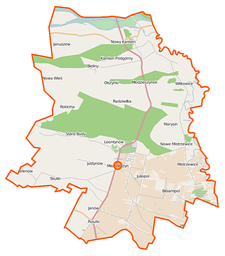 Map of Gmina Młodzieszyn, PolandThis map of Młodzieszyn (gmina) was created from OpenStreetMap project data, collected by the community. This map may be incomplete, and may contain errors. Don't rely solely on it for navigation.